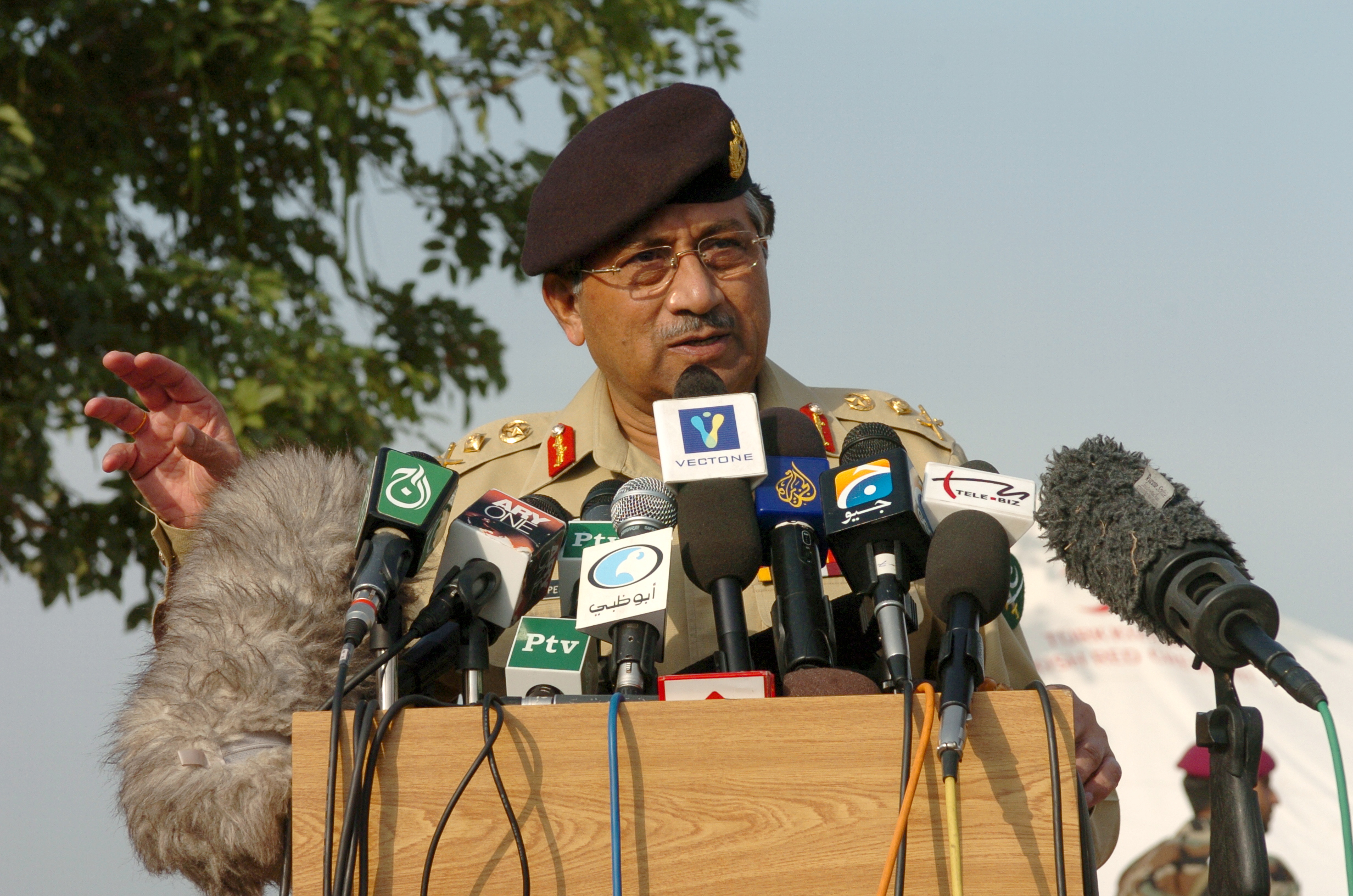 Chaklala, Pakistan (Oct. 15, 2005) - Pakistani President Gen. Pervez Musharraf speaks during a press conference at the Pakistan Air Force base in Chaklala Pakistan. The United States government is participating in a multinational humanitarian assistance and support effort lead by the Pakistani Government to bring aid to victims of the devastating earthquake that struck the region Oct. 8, 2005. U.S. Navy Photo by Photographer’s Mate 2nd Class Timothy Smith (RELEASED)